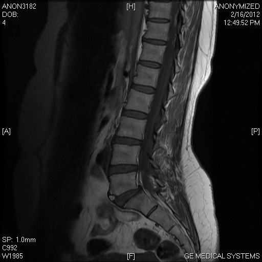 T1 W Sagittal image shows Limbus Vertebra at L5 anterio inferiorly, acquired by 1.5 T MRI scanner